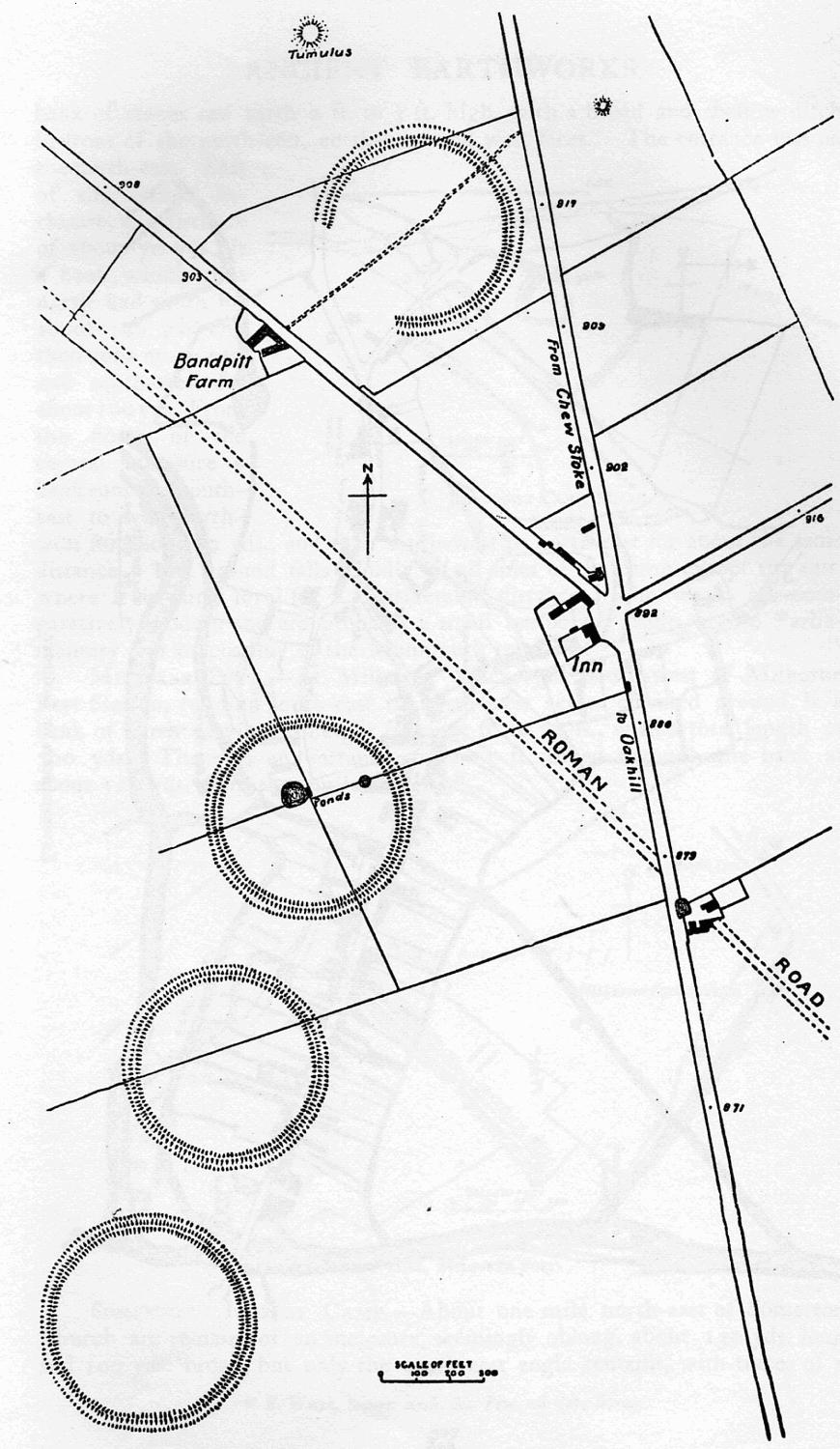 Map of earthworks at Priddy Rings, Somerset, England.